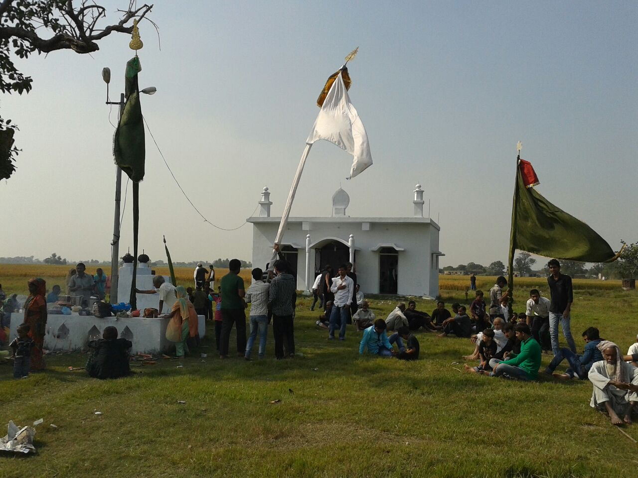 7th Moharram Juloos at Karbala of Tilgadiya Buzurg